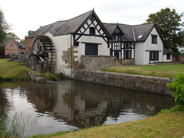 Reflections on Marford Mill, near to Rossett, Wrexham/Wrecsam, Great Britain. View of the 17th century mill and water wheel reflected in the millpond.